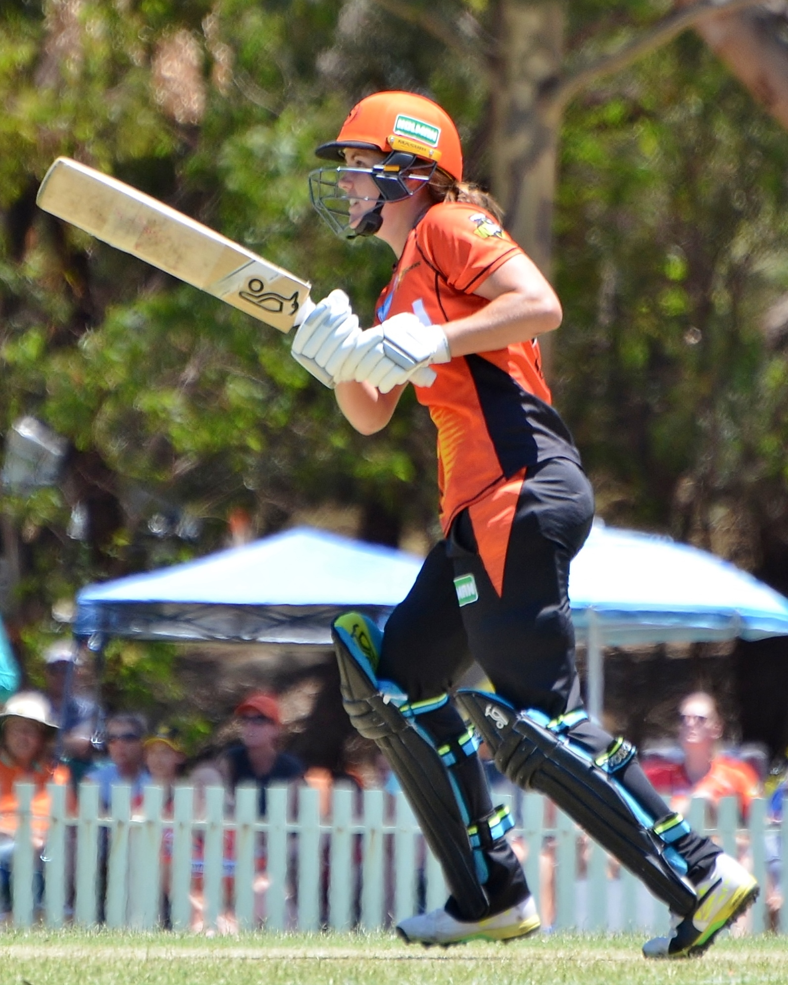 Natalie Sciver batting for the Perth Scorchers against the Sydney Sixers, in a WBBL match at Lilac Hill Park in Perth.